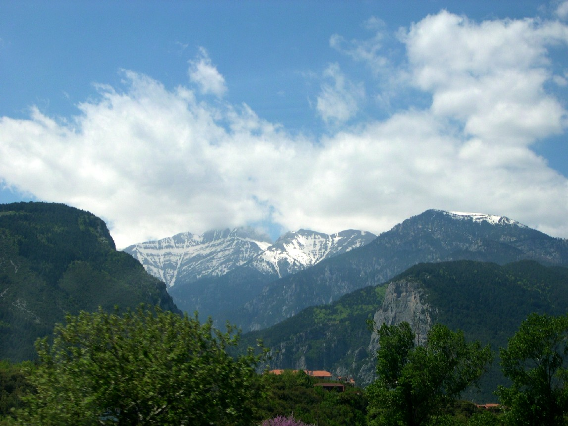 Mount Olympus - the highest mountain of Greece; view from the town of Litochoro, in Olympus' roots.